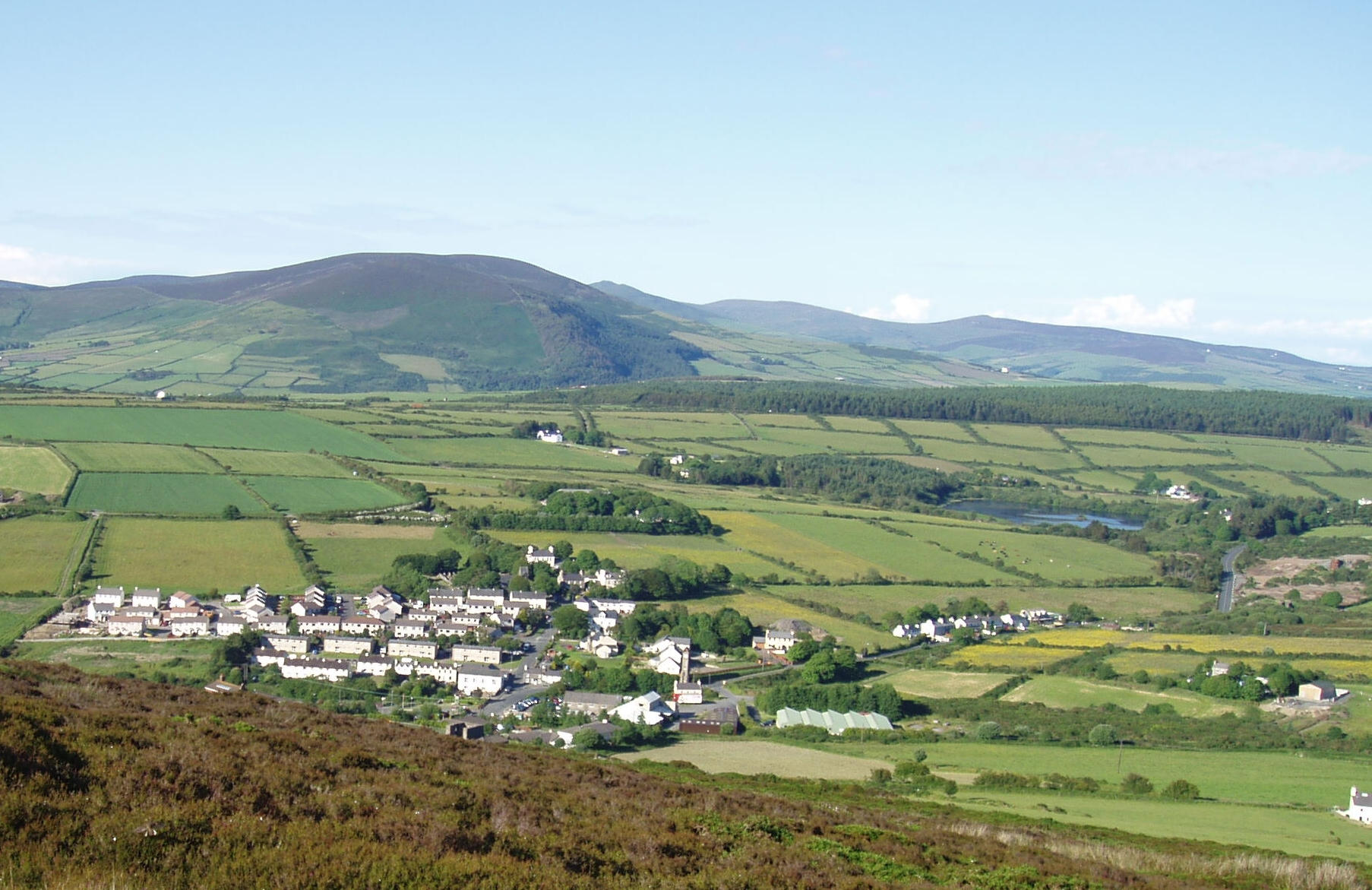 Photo showing the varied terrain (mountains, hills, plains) and land uses (residential, farming, water reservoir) of Isle of Man. This view of the south central portion of the island includes the town of Foxdale, Mines Road, Kionslieau Road, and Kionslieau Reservoir. The camera is located along the A36 Road oriented toward the northeast. Foxdale is a village in the parish of Patrick.